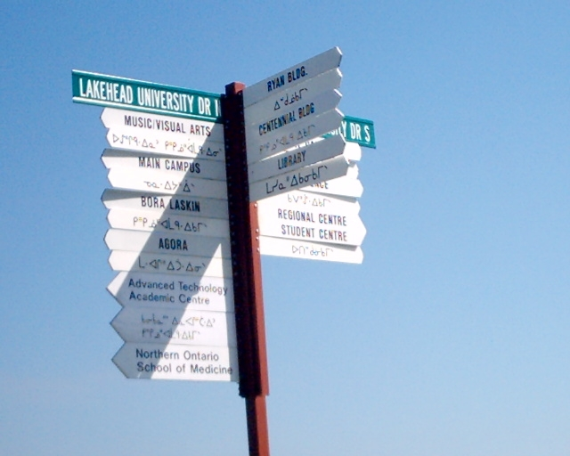 A bilingual which-way sign at Lakehead University in Thunder Bay, Ontario. The languages are English and Ojibwe.